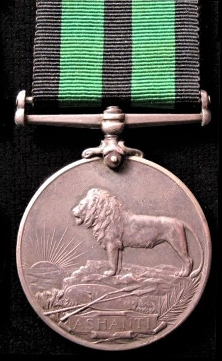 British campaign medal for the 1901 Ashanti campaign, in what is now southern Ghana.